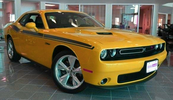 Concept color of future Challenger